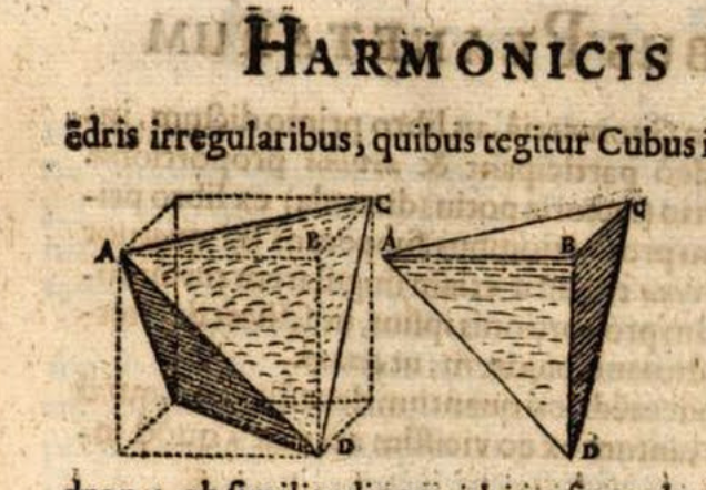 Johannes Kepler discovered that the tetrahedron can be inscribed in the cube, occupying four of the cube's eight corners, with its edges as the diagonals of the six square faces. His drawing of the relationship between the two solids appears on page 181 of book V of his 'Harmonics of the World', published in 1619.